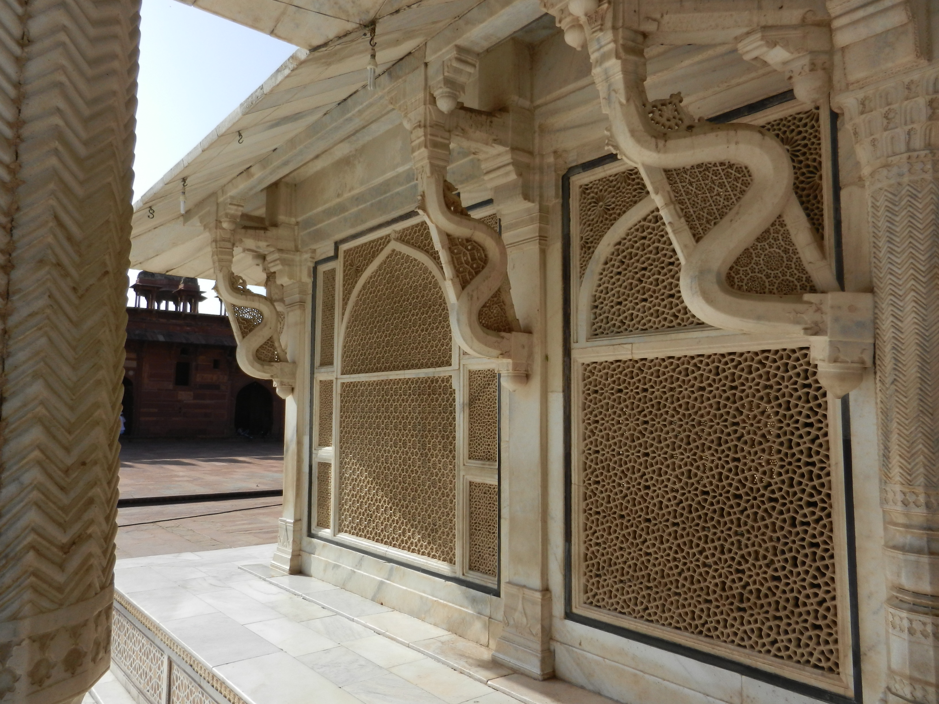 side wall